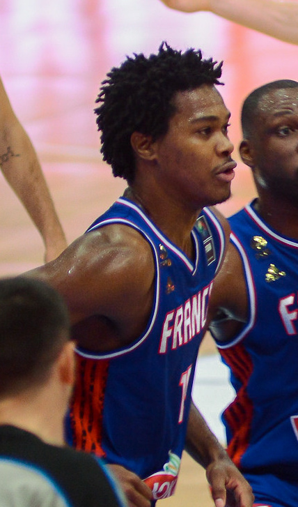 Dirk Nowitzki playing for Germany in friendly game against France on 30 August 2015.